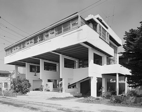 The Lovell Beach House — Newport Beach, Southern California. Design by architect Rudolph Schindler. On the National Register of Historic Places in Southern California. Image courtesy of the federal HABS—Historic American Buildings Survey of California. Design Incorporating Le Corbusier's 5 principles of new design. Elevated on columns Using curtain windows Flat garden roof Ribbon windows Open air spaces